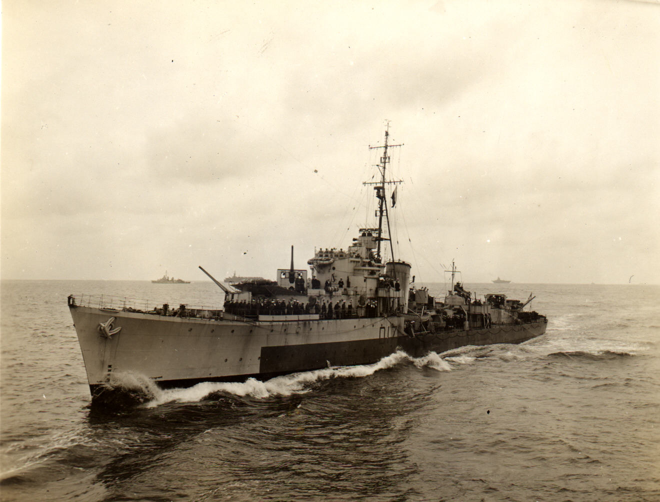 The British Royal Navy Q-class destroyer HMS Quadrant (D17) steaming next to the U.S. aircraft carrier USS Wasp (CV-18) off Japan, in July 1945. In October 1945 HMS Quadrant was transferred to the Royal Australian Navy.